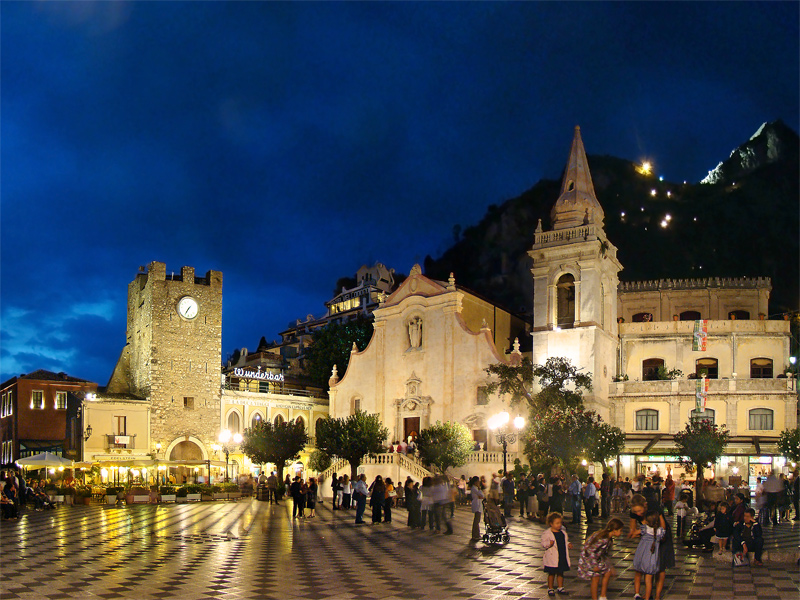 Piazza IX Aprile, Taormina, Sicily, Italy.